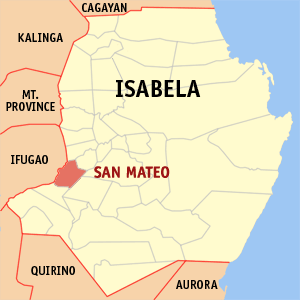 Map of Isabela showing the location of San Mateo